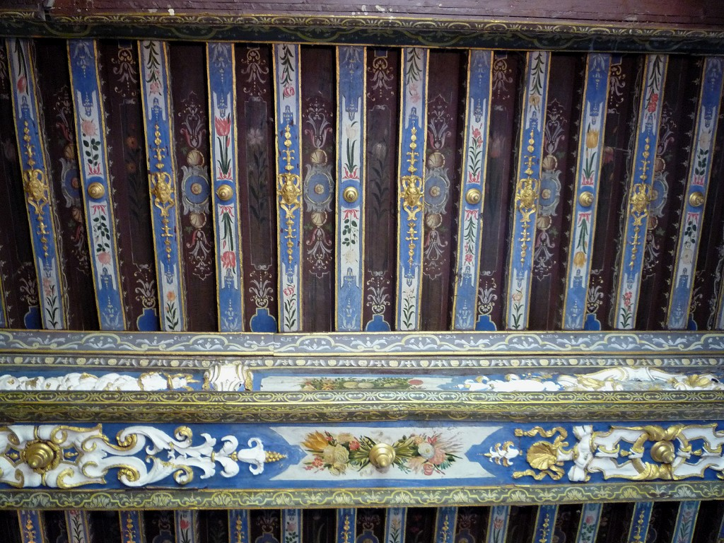 Ceiling of the Marquise's room, in Cormatin Castle